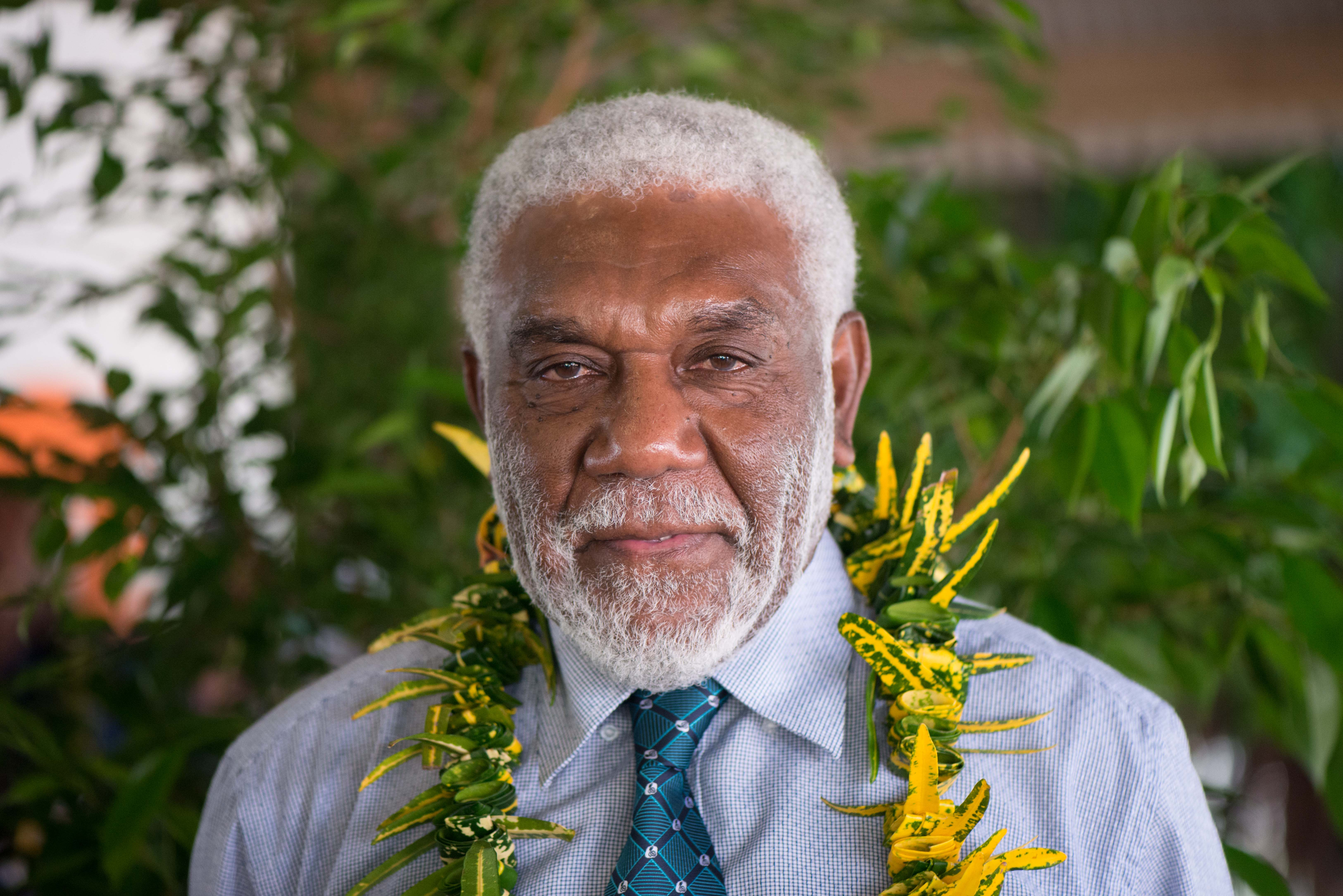 Joe Natuman at the National ICT Day festivities in Port Vila